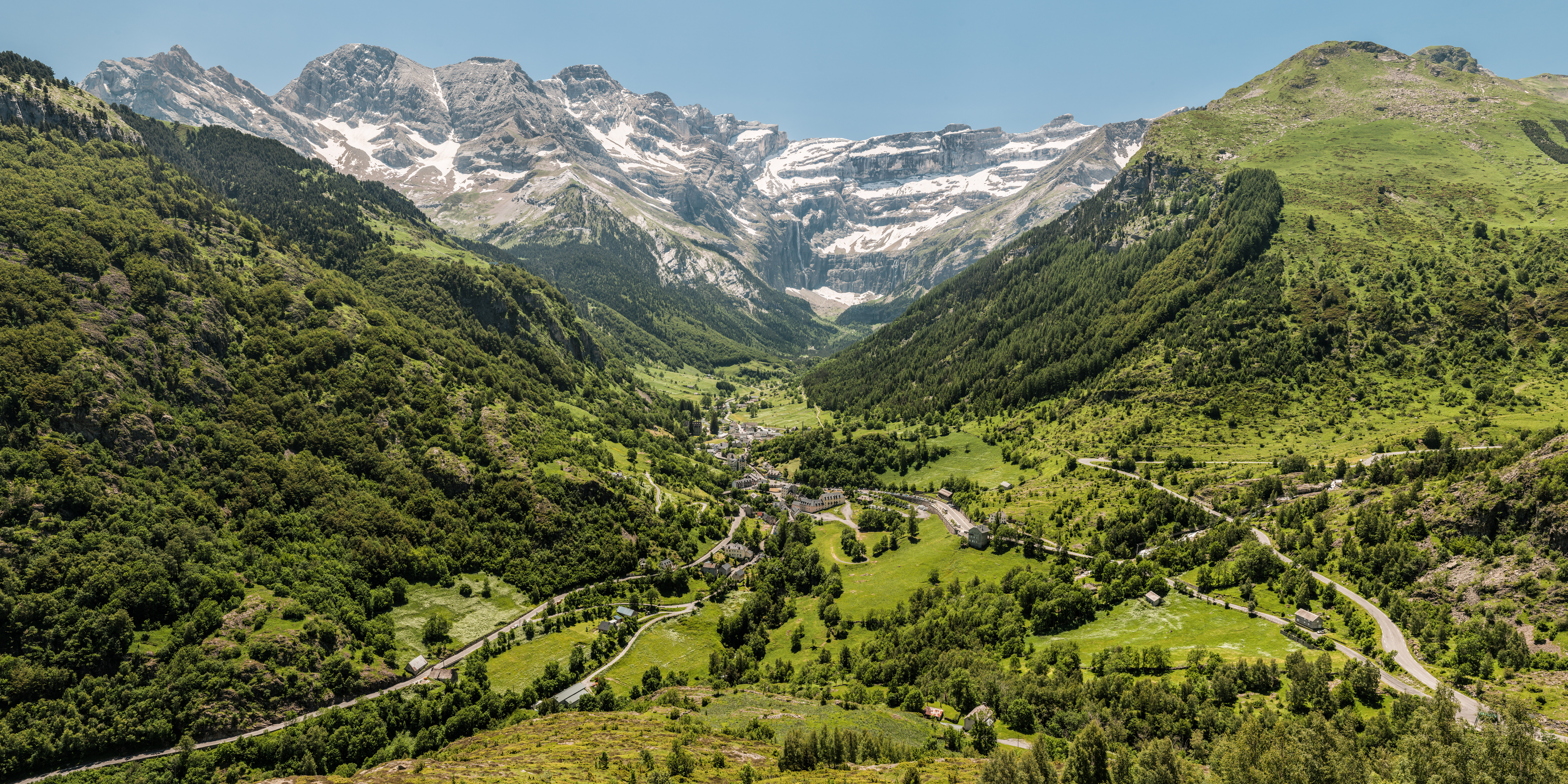 City and cirque of Gavarnie, Hautes-Pyrénées, south France